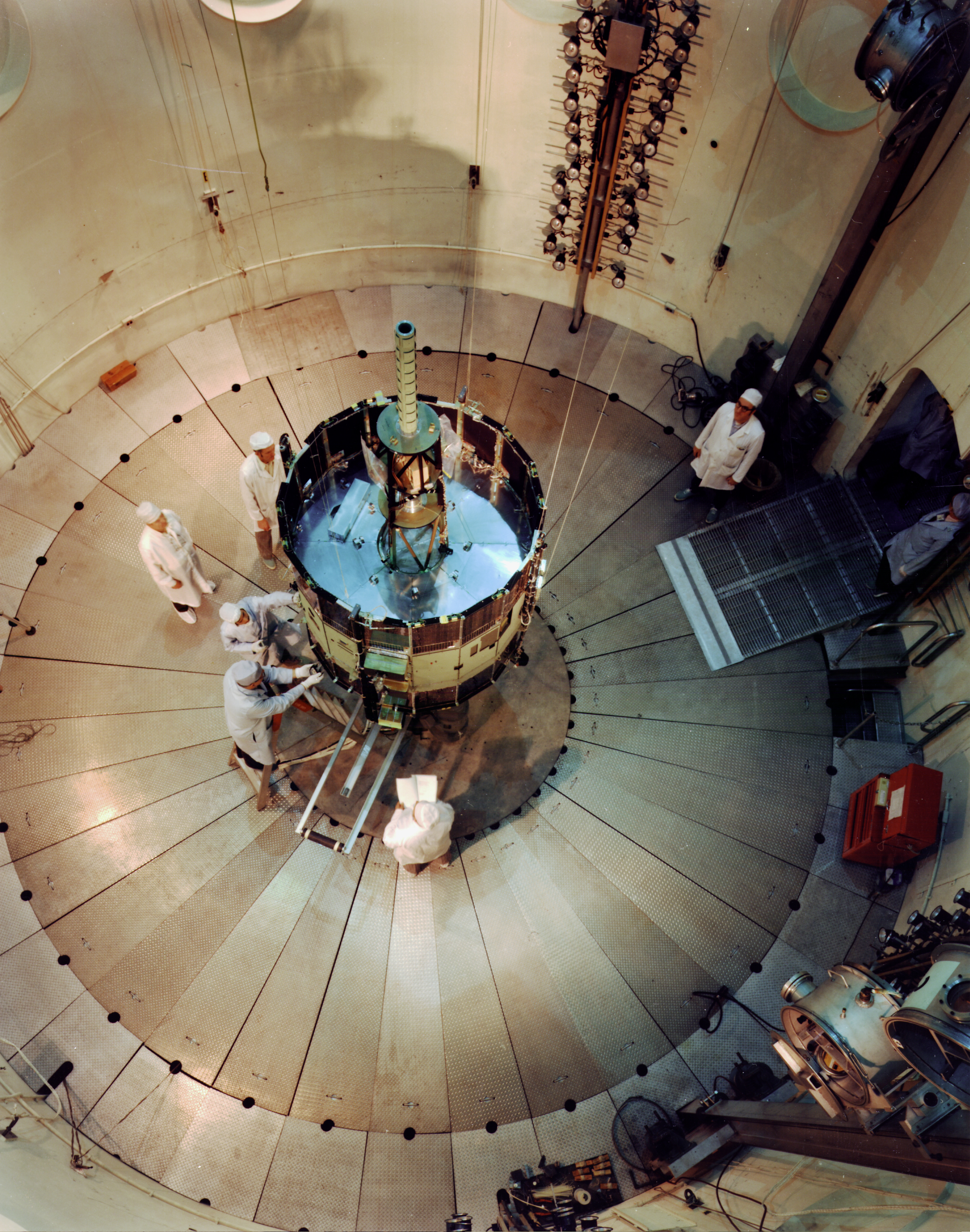 NASA's International Sun-Earth Explorer C (ISEE C) was undergoing testing and evaluation inside Goddard's dynamic test chamber when this photo was taken. Working inside a dynamic test chamber, Goddard engineers wear protective "clean room" clothing to prevent microscopic dust particles from damaging the sophisticated instrumentation. NASA launched the 16-sided polyhedron, which weighed 1,032 lbs. (469 kg.), from Cape Canaveral, Florida, on August 12, 1978. From its halo orbit 932,000 miles (1.5 million km.) from Earth, the satellite monitored the characteristics of solar phenomena about one hour before its companion satellites-ISEE-A and ISEE-B-observed the same phenomena from a much closer near-Earth orbit. The correlated measurements supported the work of 117 scientific investigators who were trying to get a better understanding of how the Sun controls Earth's near-space environment. The scientists represented 35 universities in 10 nations